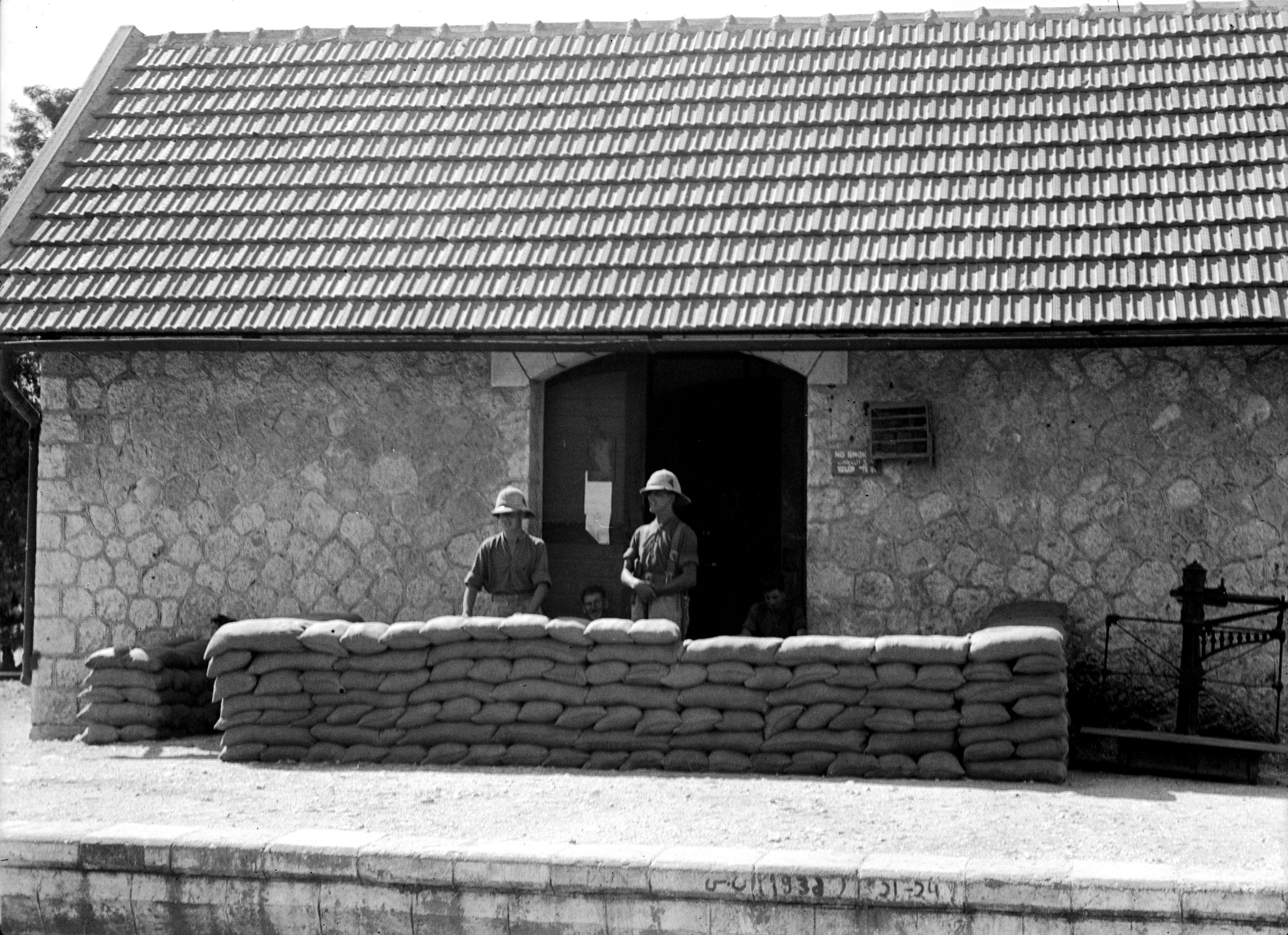 Palestine disturbances 1936. Sand-bag barricades in the railway station of Atlit